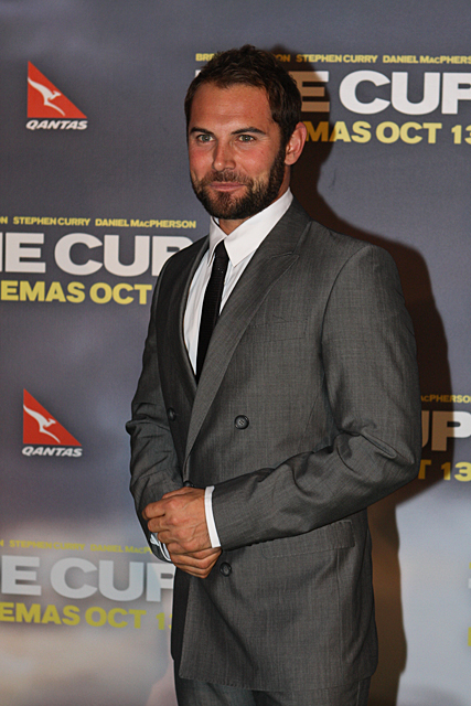 Australian actor Daniel MacPherson at the Sydney premiere of The Cup.